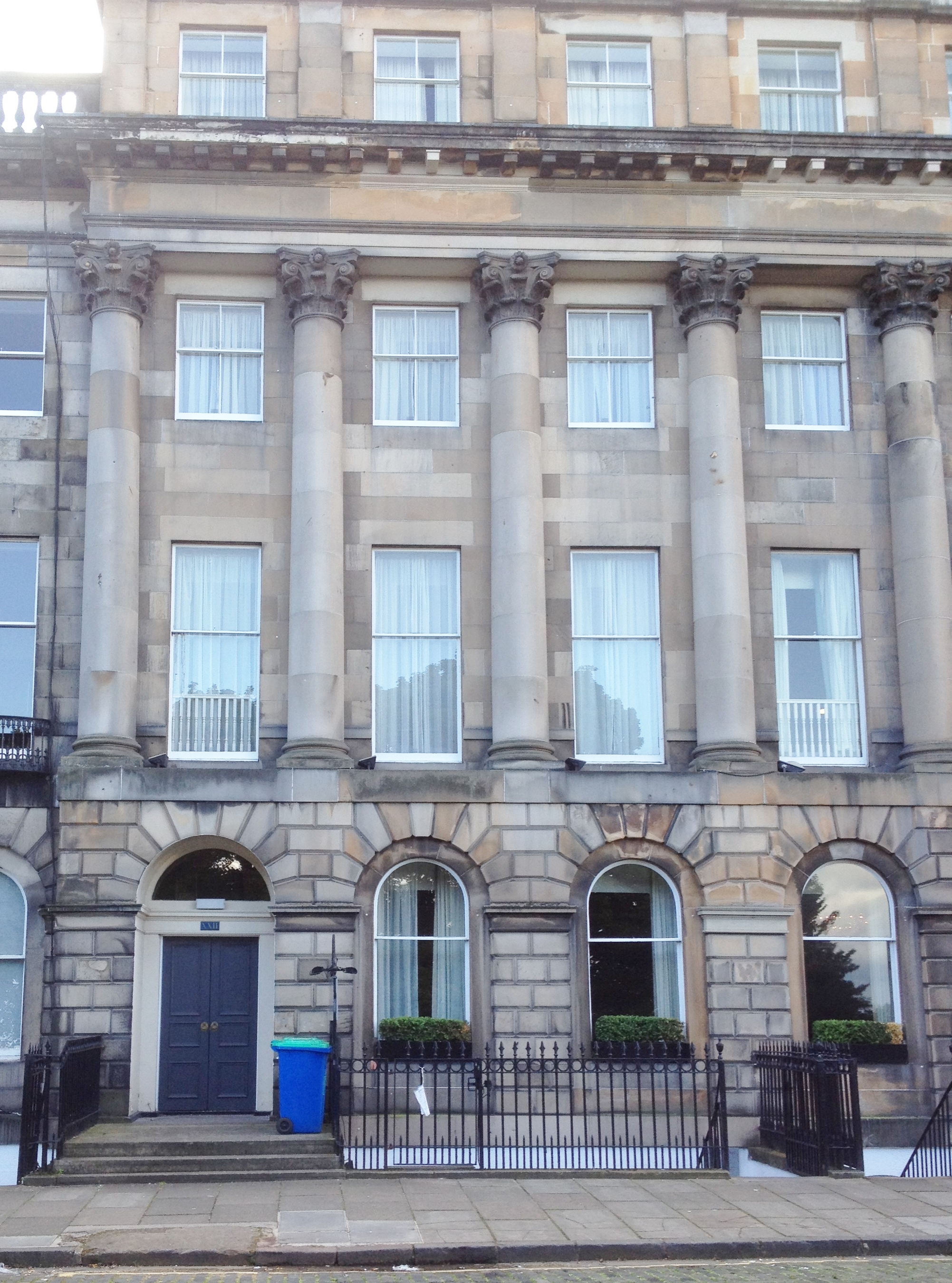 22 Royal Terrace, Edinburgh. Part of a hotel from numbers 16-22.